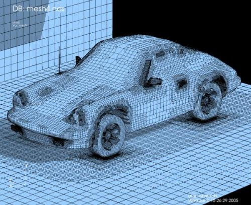 NASTRAN model The featured plot contains a Mesh plot of a Porsche 911 model imported from a NASTRAN bulk data file. VisIt can read a limited subset of NASTRAN bulk data files, generally enough to import model geometry for visualization.